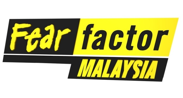 Reality Tv Show